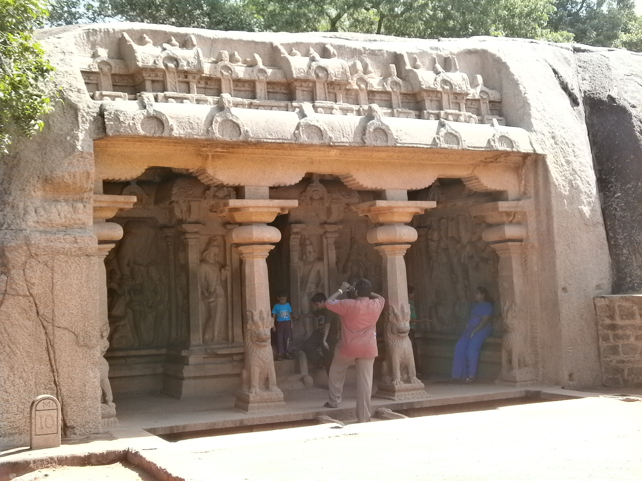 Varaha-Cave-Mahabalipuram-1